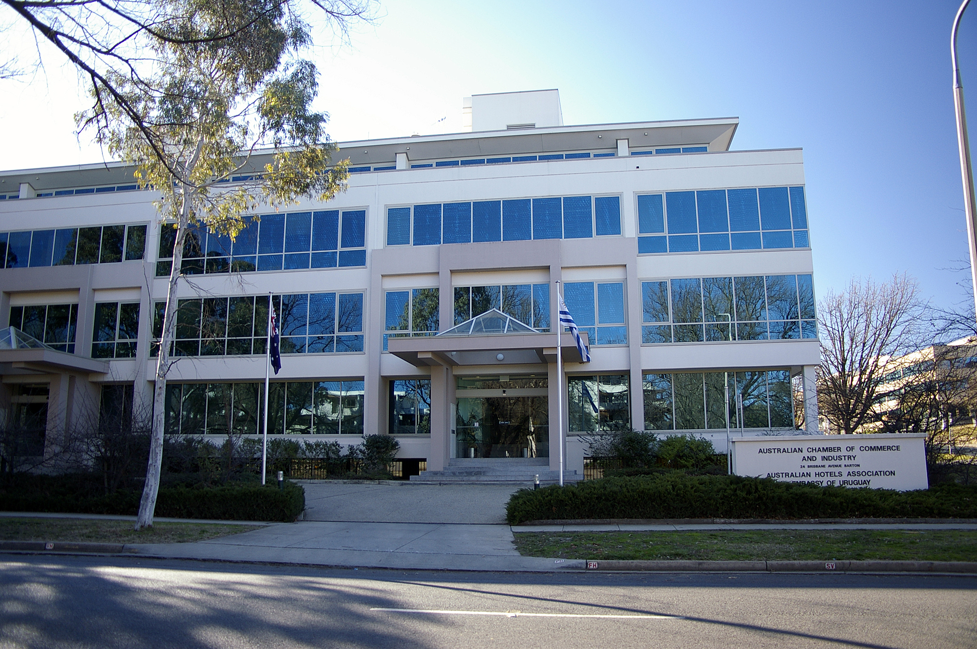 24 Brisbane Ave, Barton, ACT. Uruguayan Embassy.